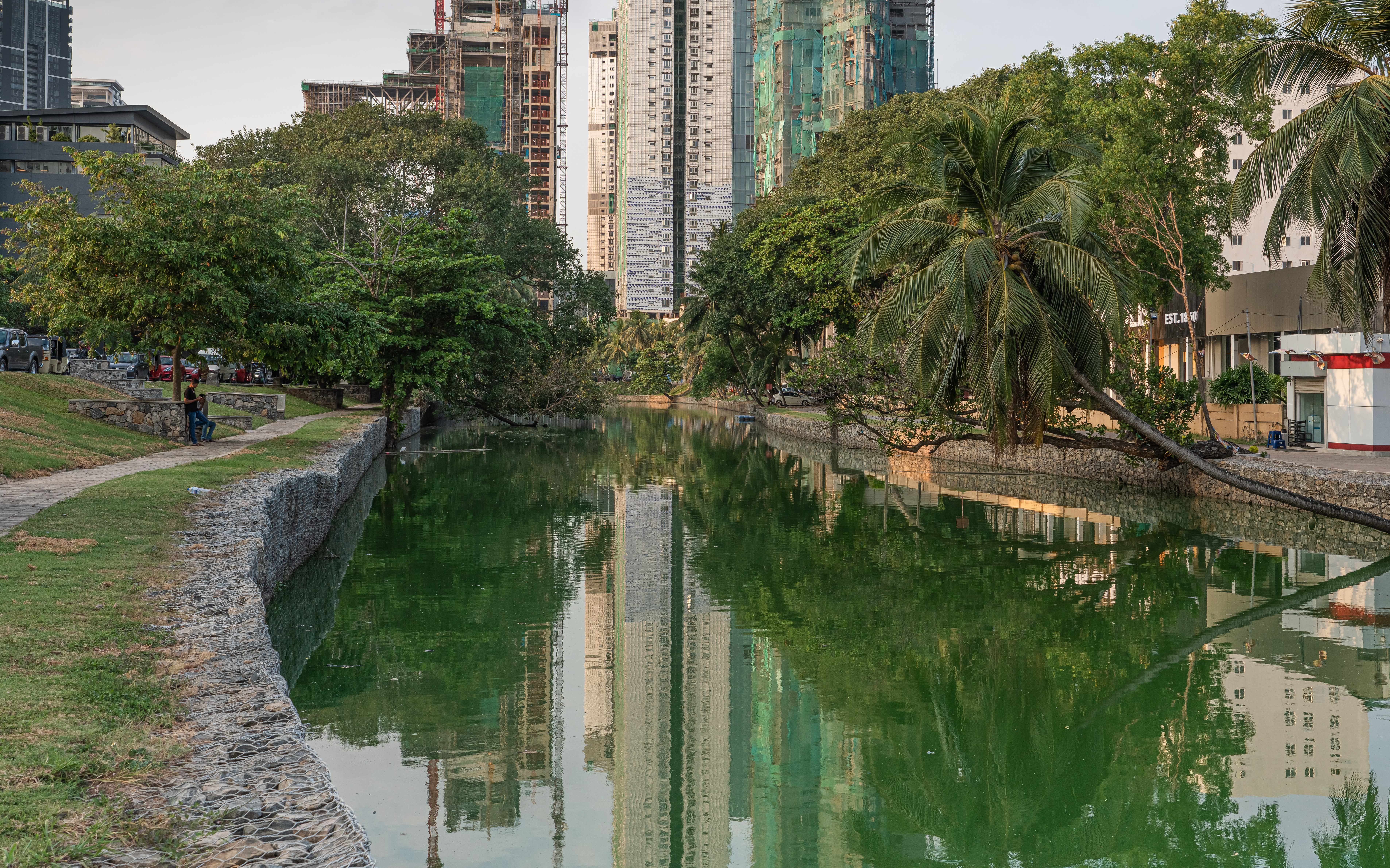 Beira Lake canal in Colombo, Sri Lanka